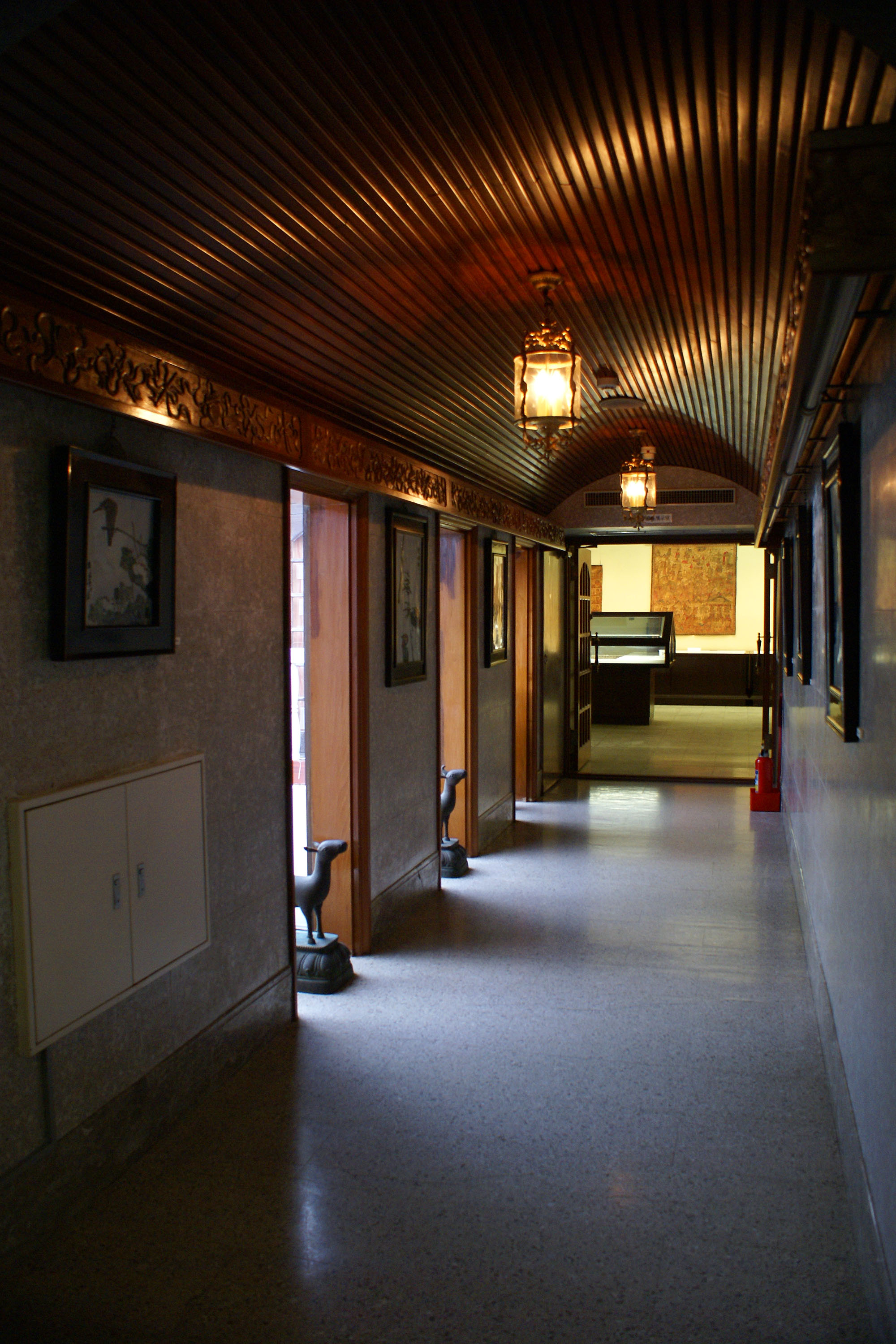 Emba Museum of Chinese Modern Art in Ashiya, Hyogo, Japan